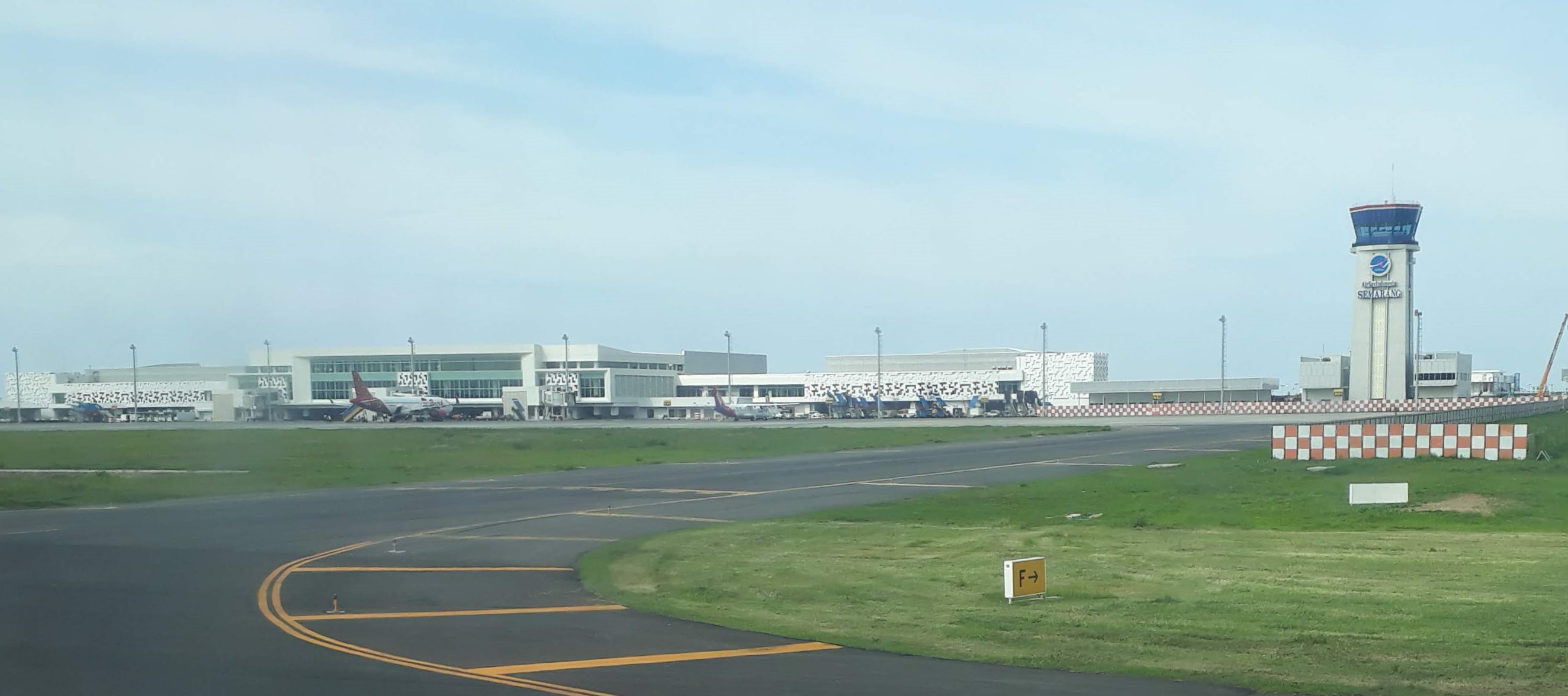 The new terminal building and control tower at Ahmad Yani Airport, Semarang, Central Java, Indonesia